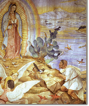 "The Miracles of the Virgin of Guadalupe" — by Mexican painter Fernando Leal (1896−1964). Panel in a fresco cycle in the Tepayac Chapel, at the Basilica of Our Lady of Guadalupe, Mexico City.